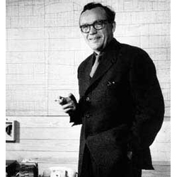 Non-artistic photo of Danish Architect Finn Juhl